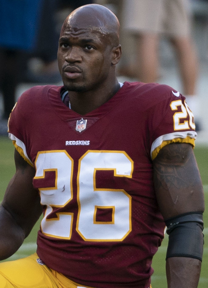 Broncos at Redskins 8/24/18